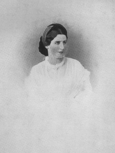 Princess Sophie of Liechtenstein (1837-1899) child of Aloys II and wife of Karl, Prince of Löwenstein-Wertheim-Rosenberg (1834-1921)